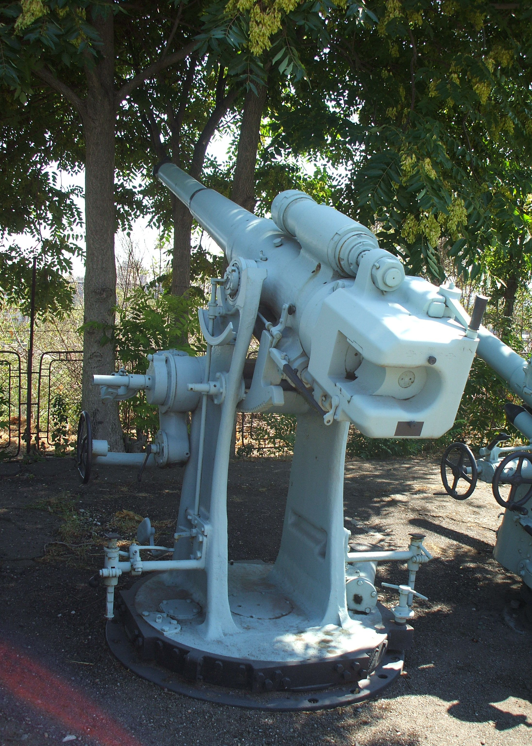 101,6 mm Bofors naval gun used by the Delfinul submarine.